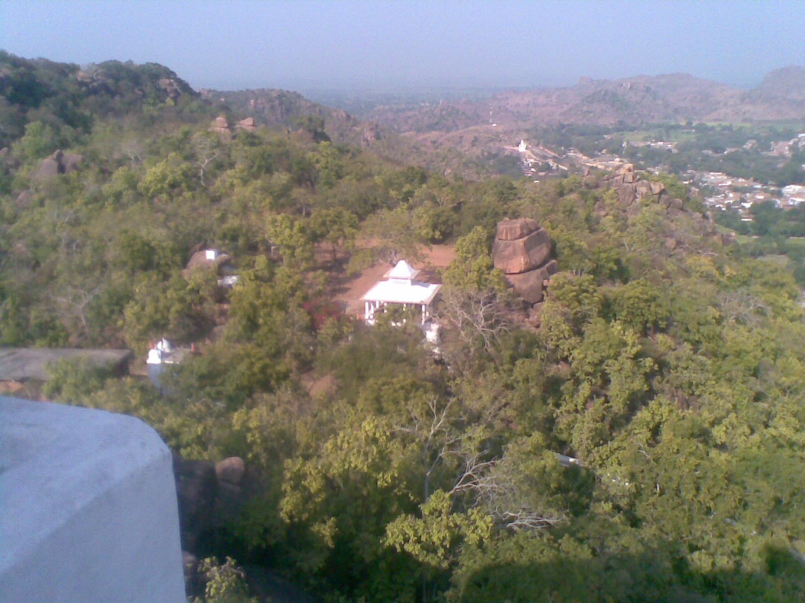 Panaromic view of the yagna sthala - Bambar Baini